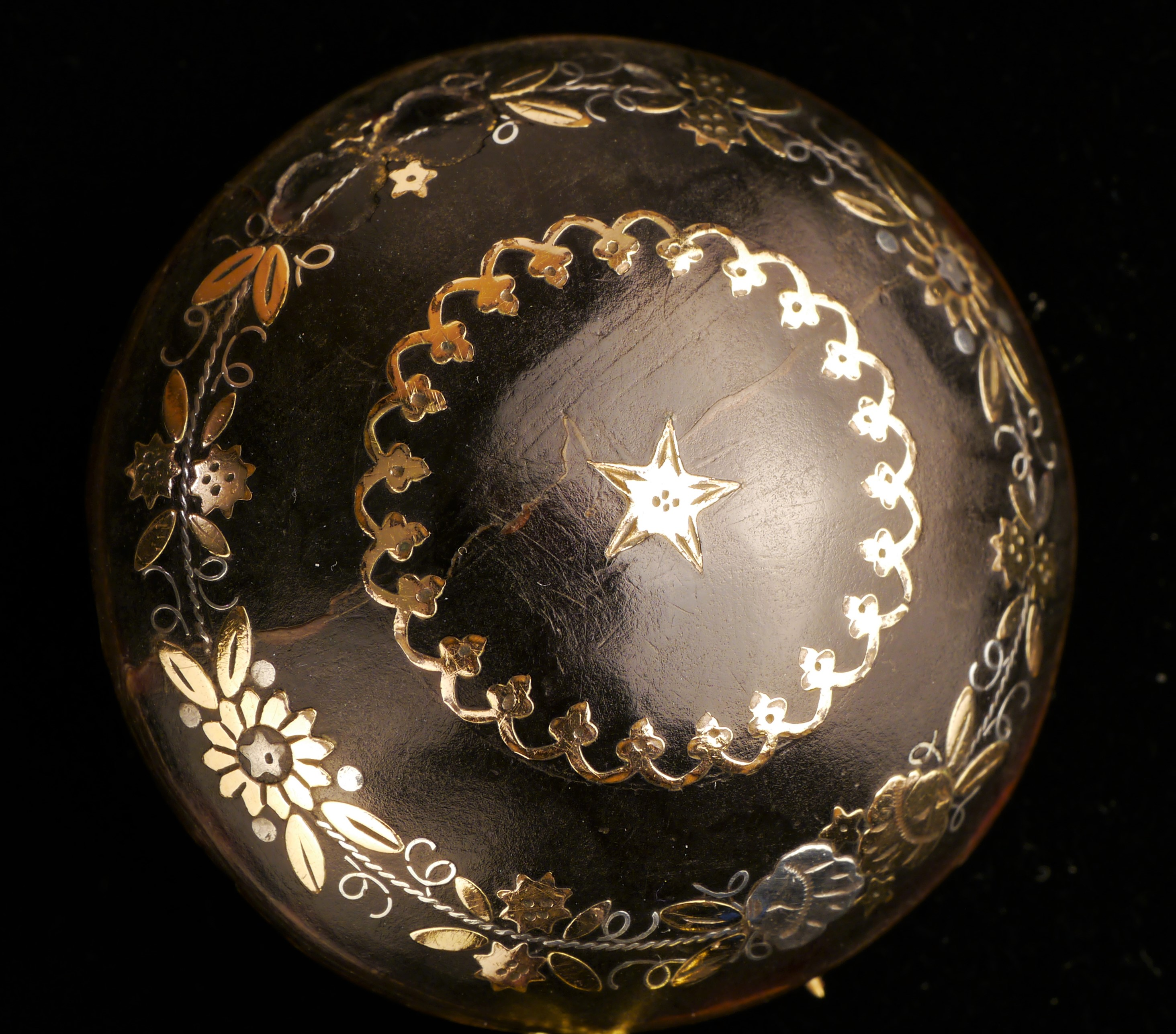 Victorian tortoiseshell piqué brooch- inlayed with gold and silver using a technique called piqué work